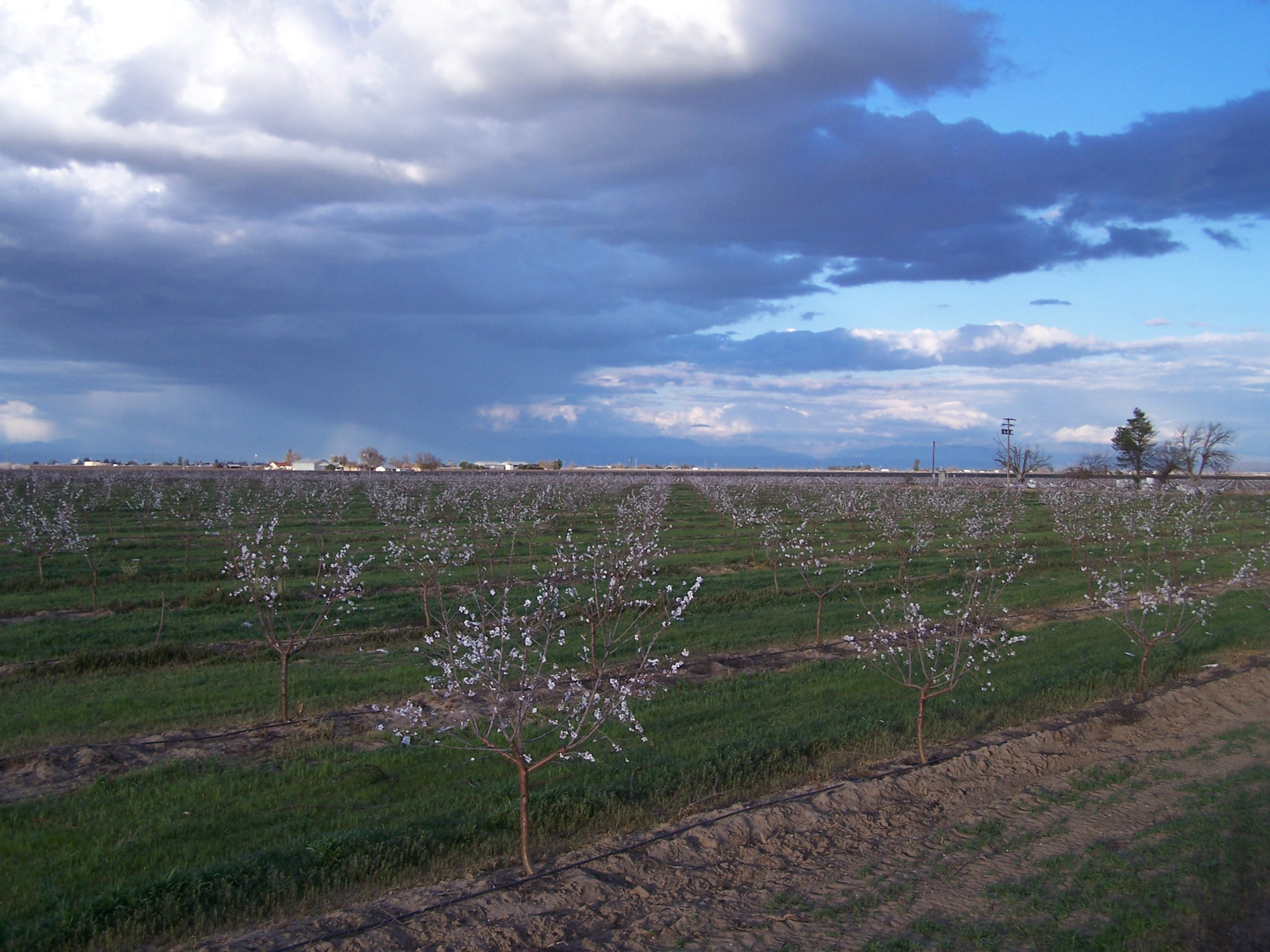 An Almond Farm in Central California